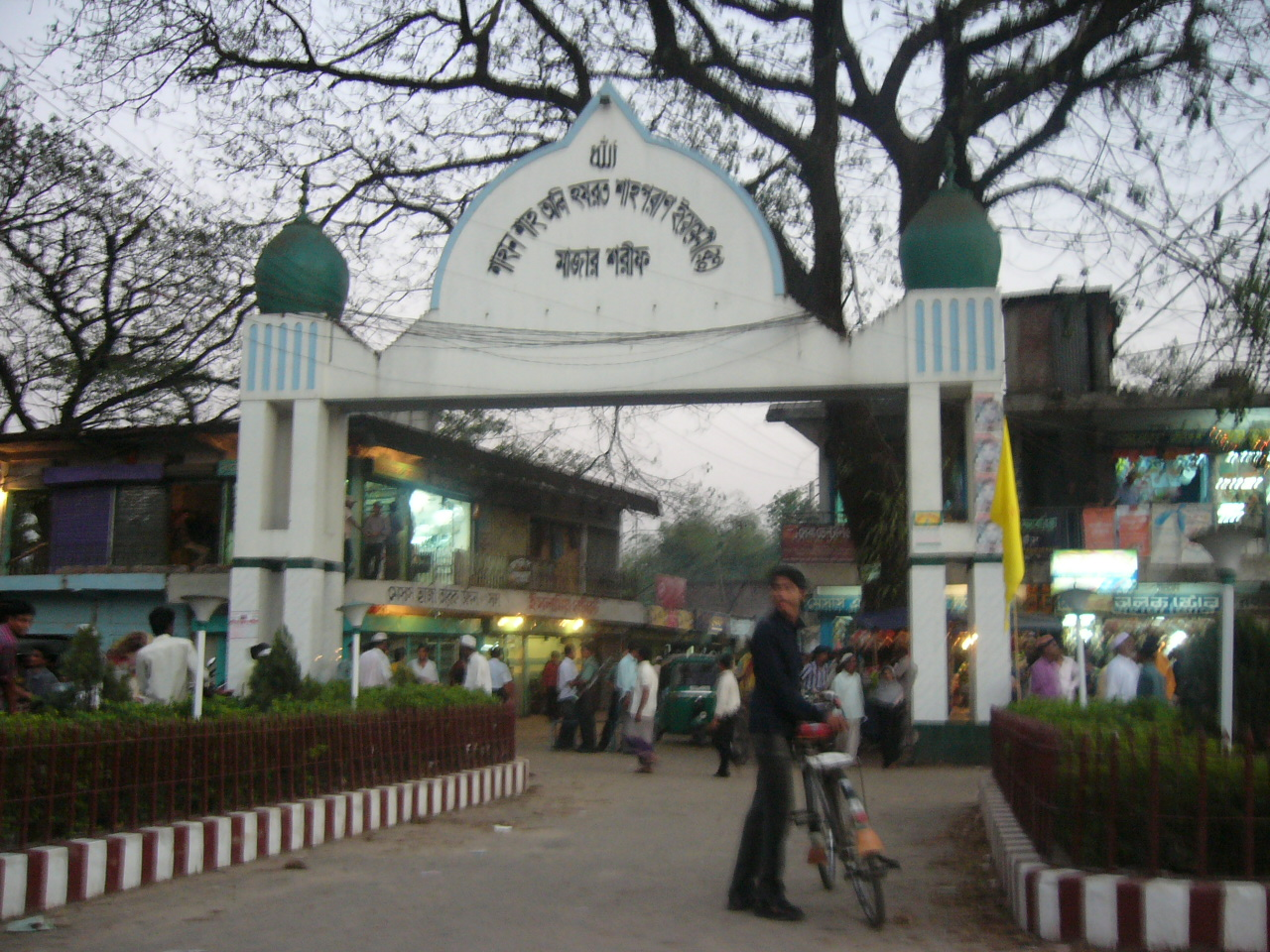 Shrine of Hazrat Shah Paran Sylhet Bangladesh